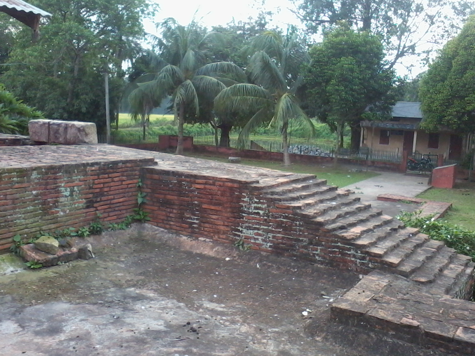 visited Rudreswar Devaloya in North Guwahati and took the photo